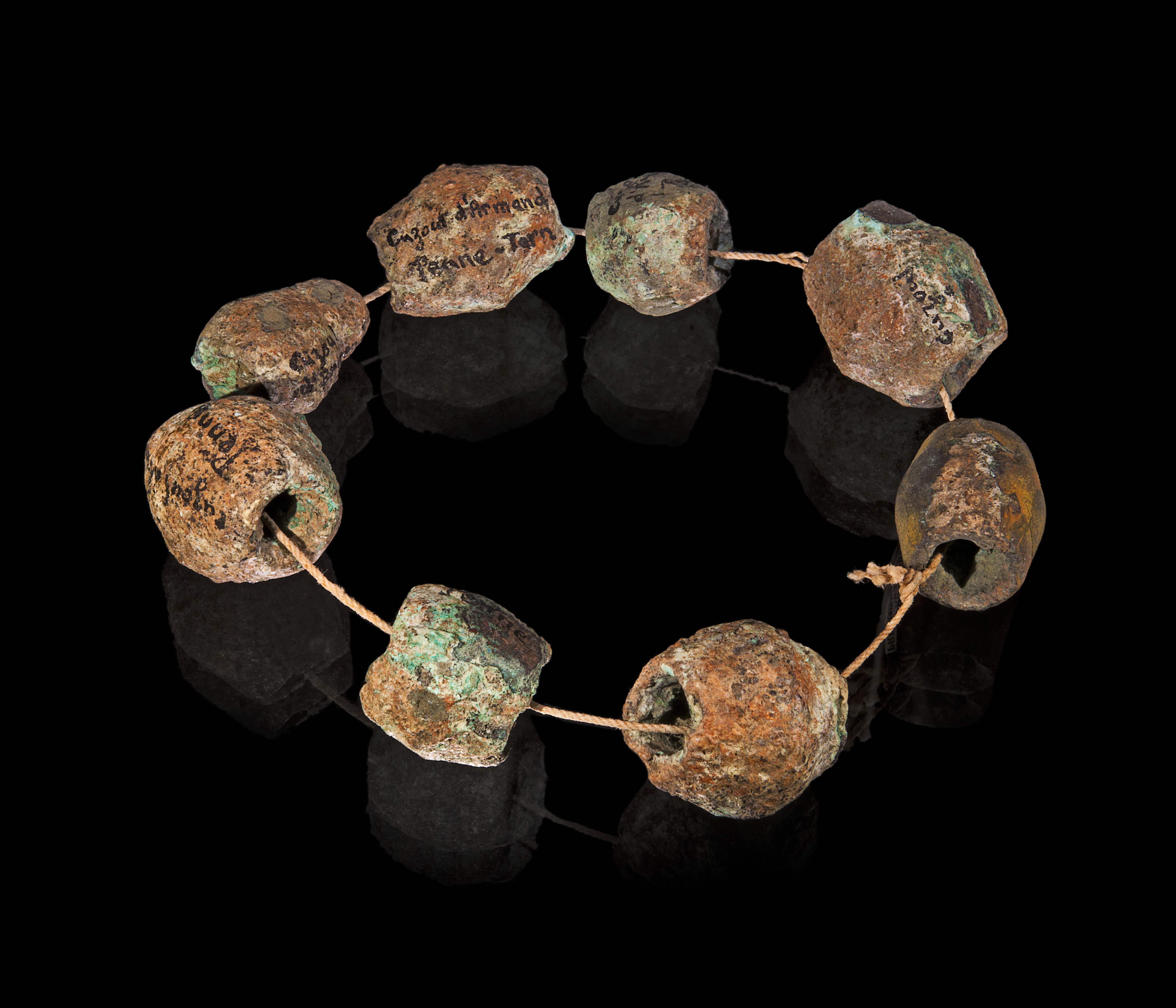 Bronze bead necklace Stage: Holocene Bronze age 1800-1500 BC Locality: Cave called "Le Cuzoul d'Armand" (alias Grotte Mazuc) in Penne, Tarn, France Collection: Jean-Baptiste Noulet 1881 Muséum of Toulouse MHNT.PRE.2009.0.236.1 (Size 110×110×24 mm)